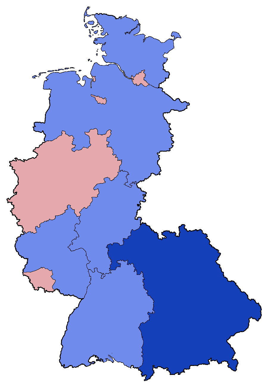 Electoral map showing the party list vote results (Zweitstimmen) of the 1987 Bundestag (West German parliament) elections by state. Dark blue denotes states where CDU/CSU had the absolute majority of the votes; lighter blue denotes states where CDU/CSU had the plurality of votes; and pink denotes states where the SPD had the plurality of votes.